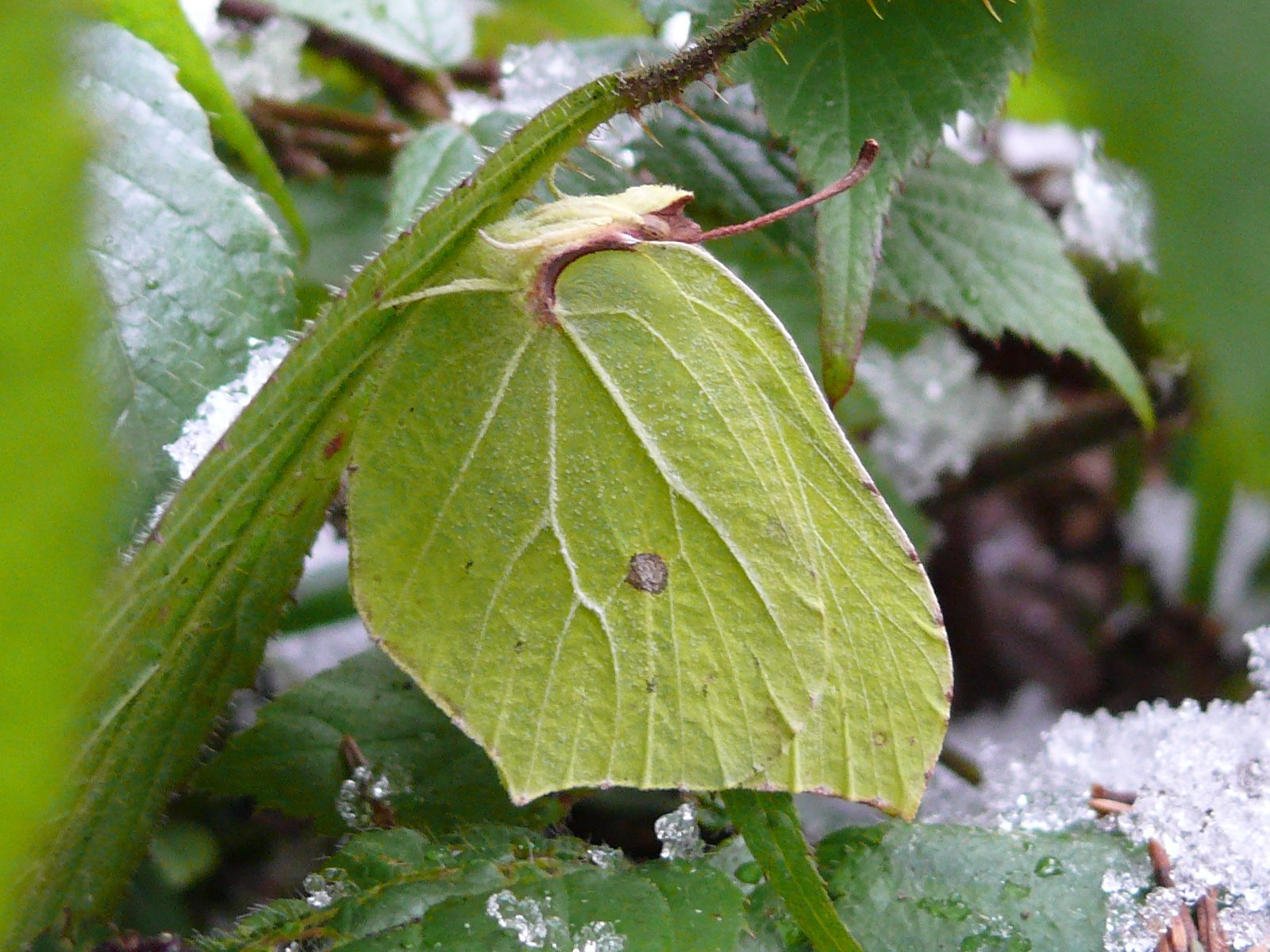 Hibernating Common Brimstone (male), Upper Bavaria, Germany Aufgenommen während einer Exkursion des Arbeitskreises Schmetterlinge der Kreisgruppe München beim Landesbund für Vogelschutz (LBV).